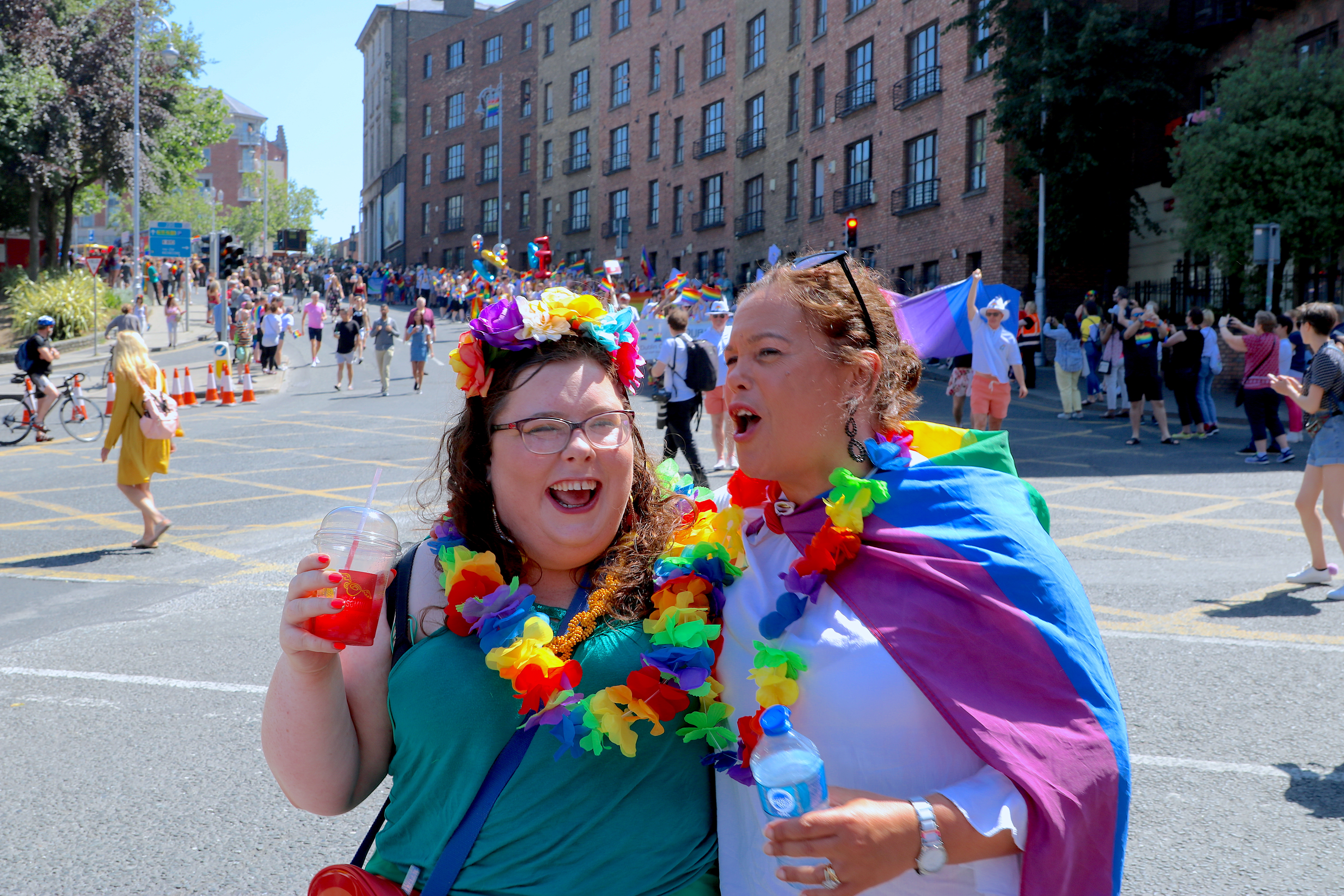 Alison Spittle and Mary Lou McDonald TD.